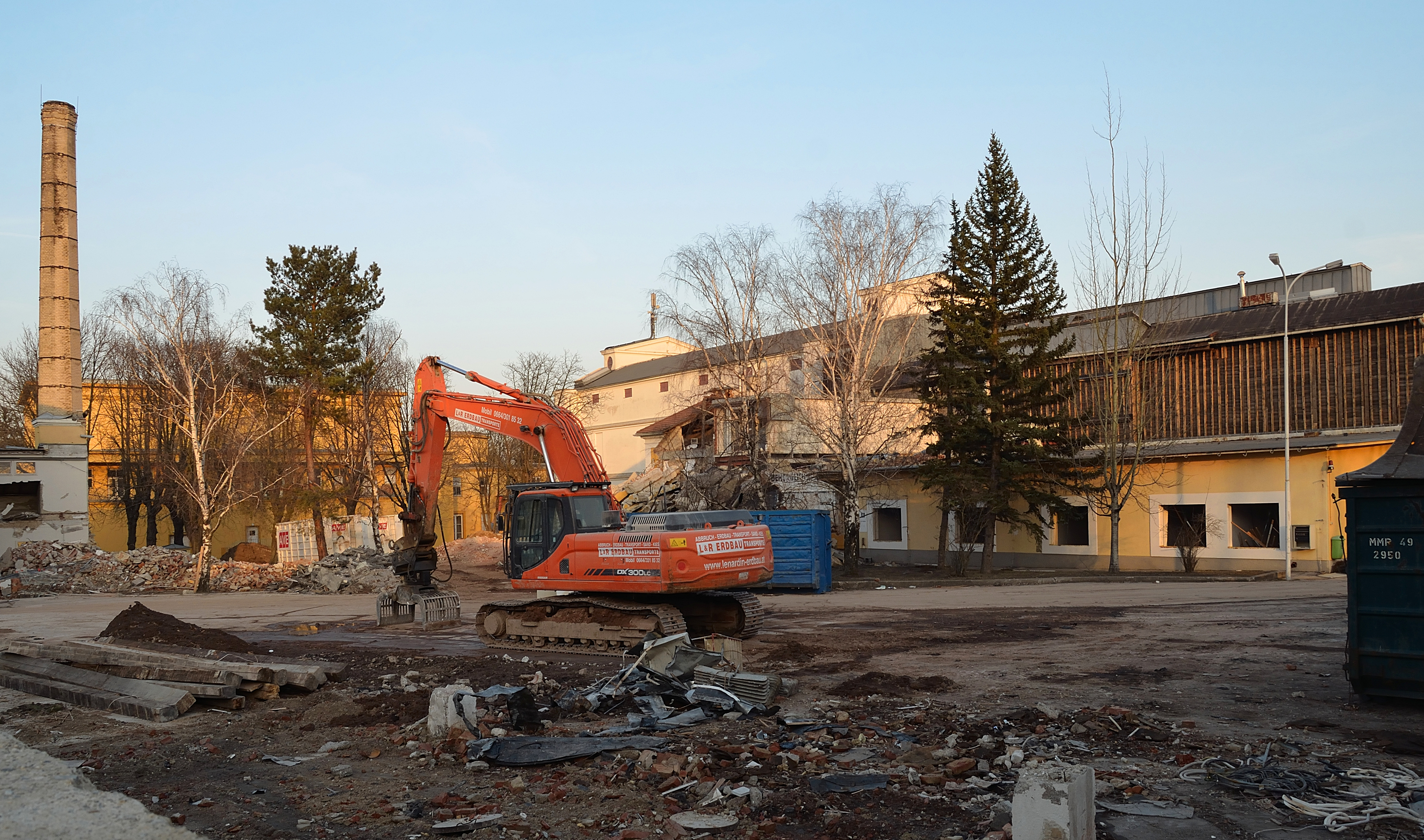 Demolition of Rosenhügel Film Studios at Speising, Vienna.